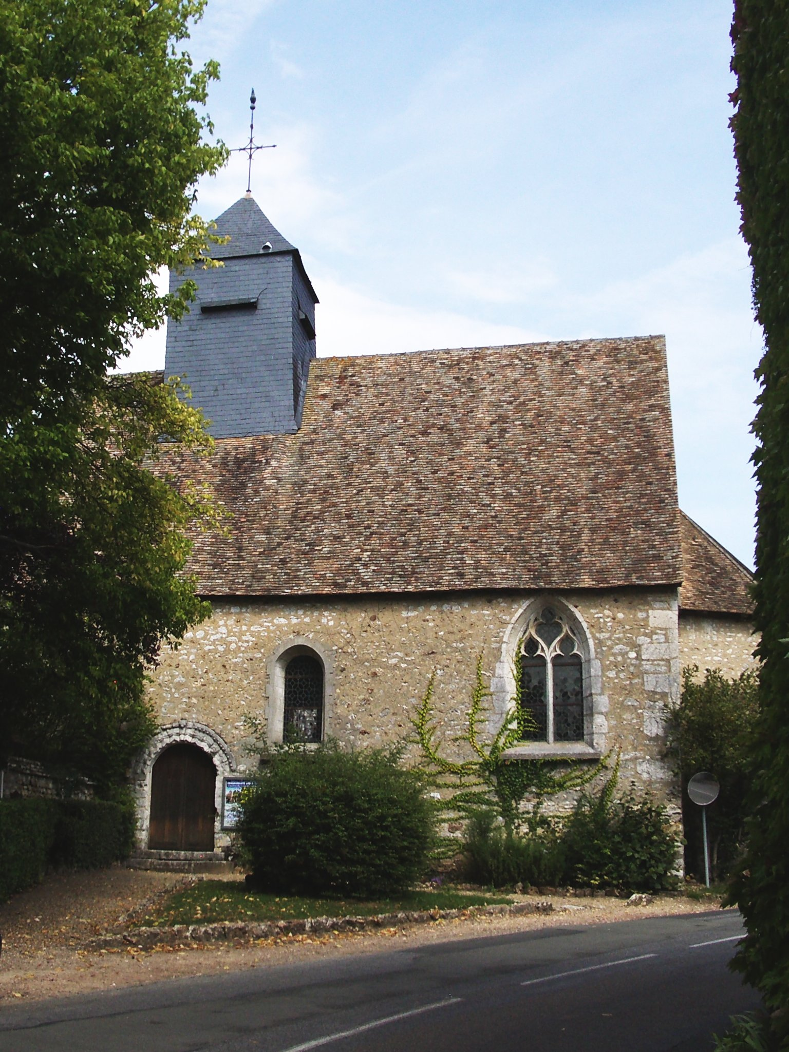 La Chapelle Réanville (Eure) church